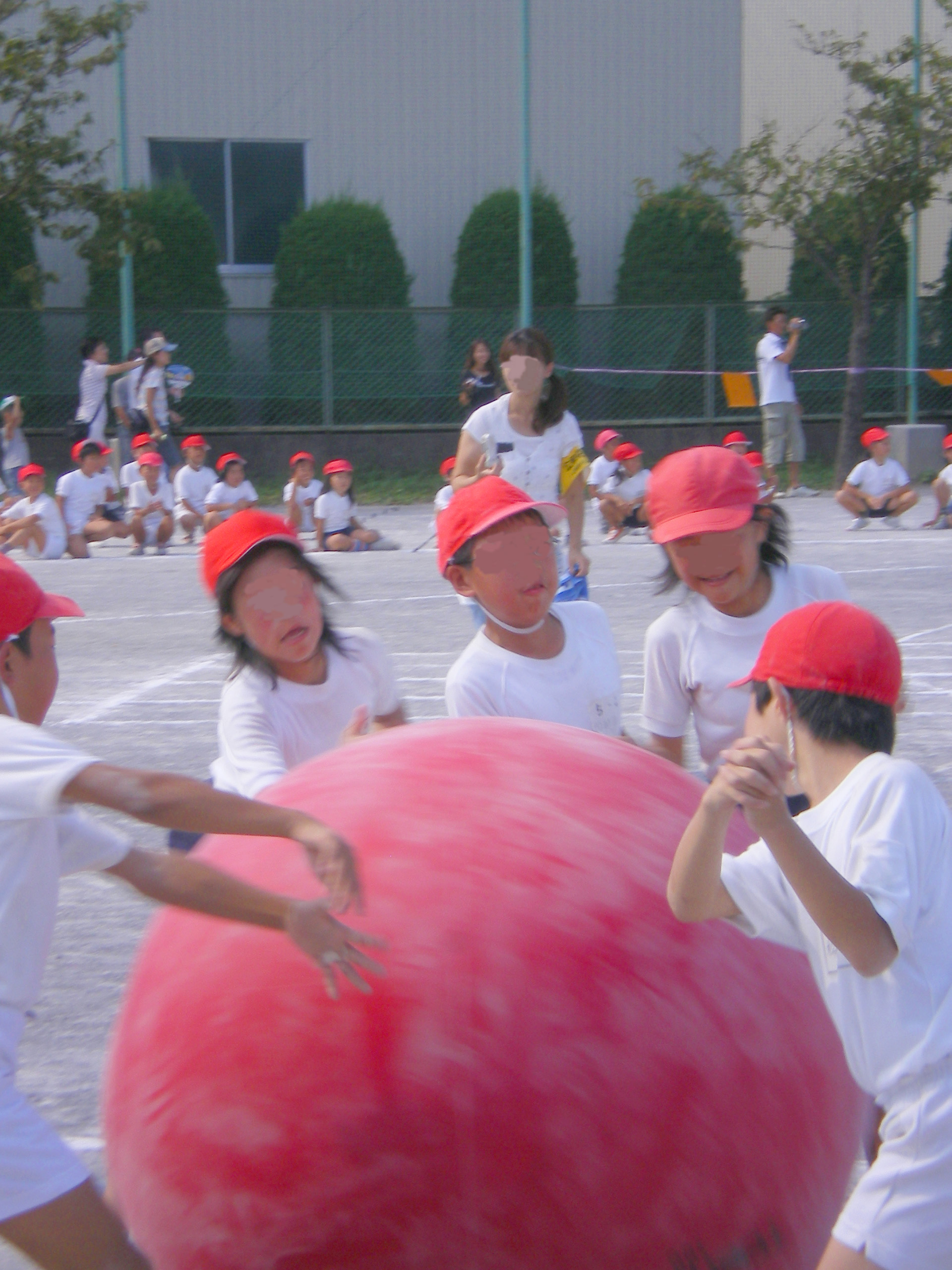 An Event of Undoukai, Tamakorogashi.